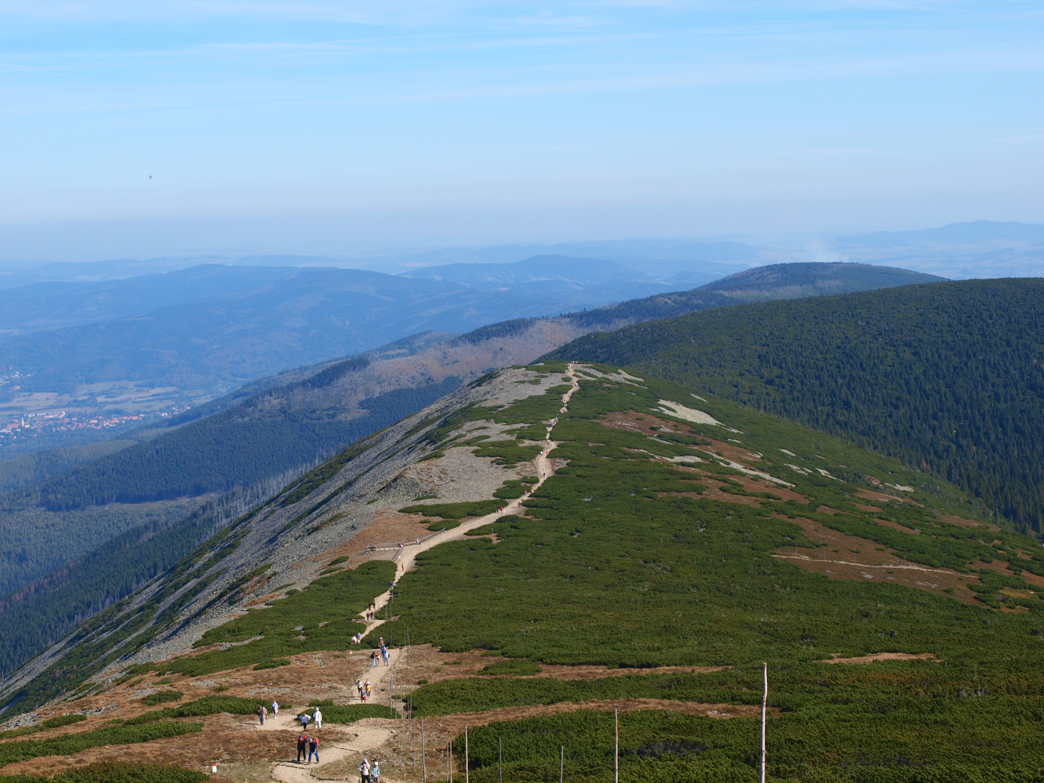 View at cesta česko-polského přátelství towards Pomezní Boudy, Sněžka, Krkonoše